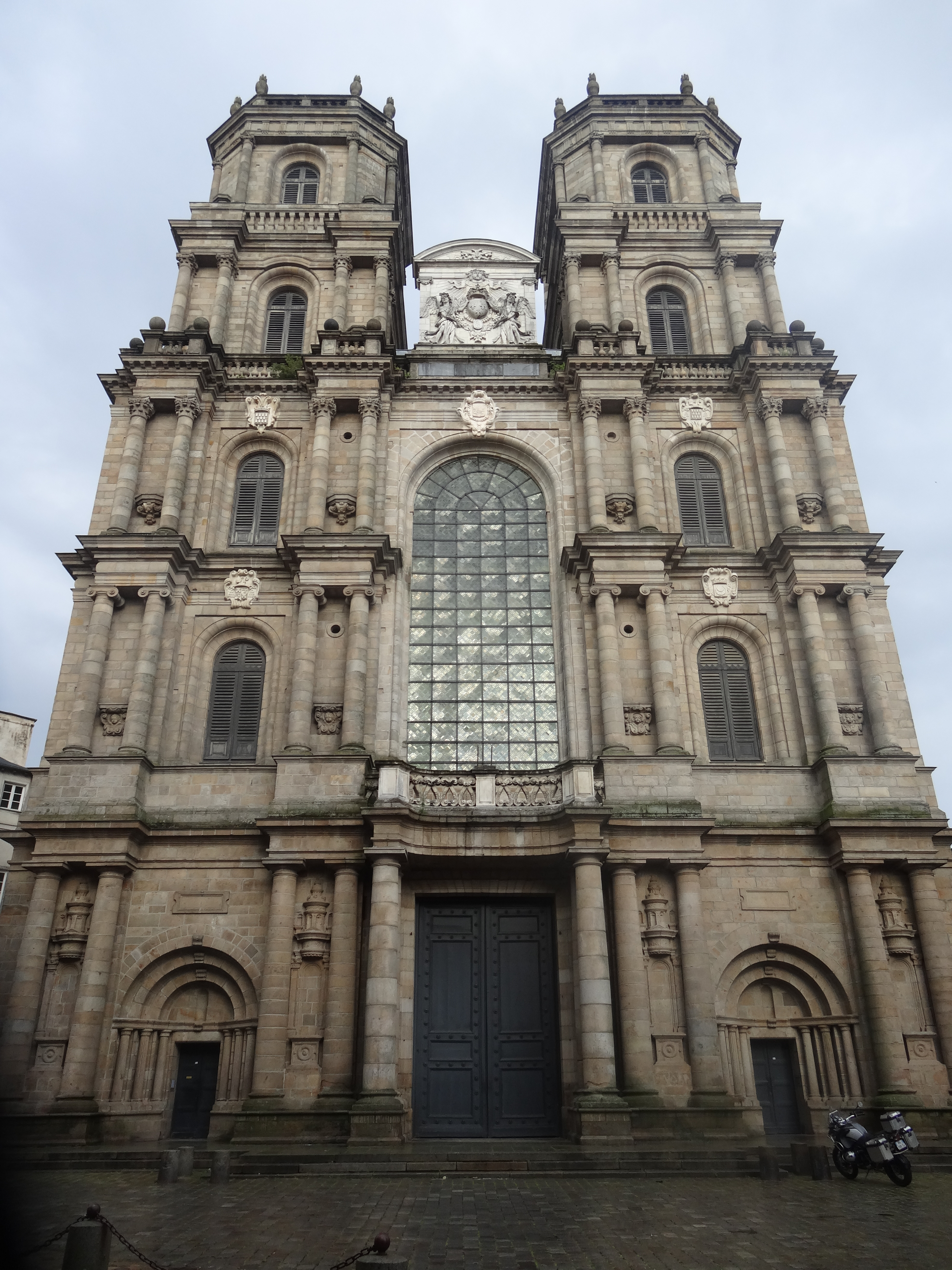 Cathedrale Saint Pierre de Rennes